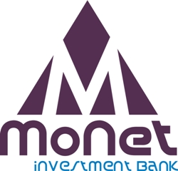 Logo